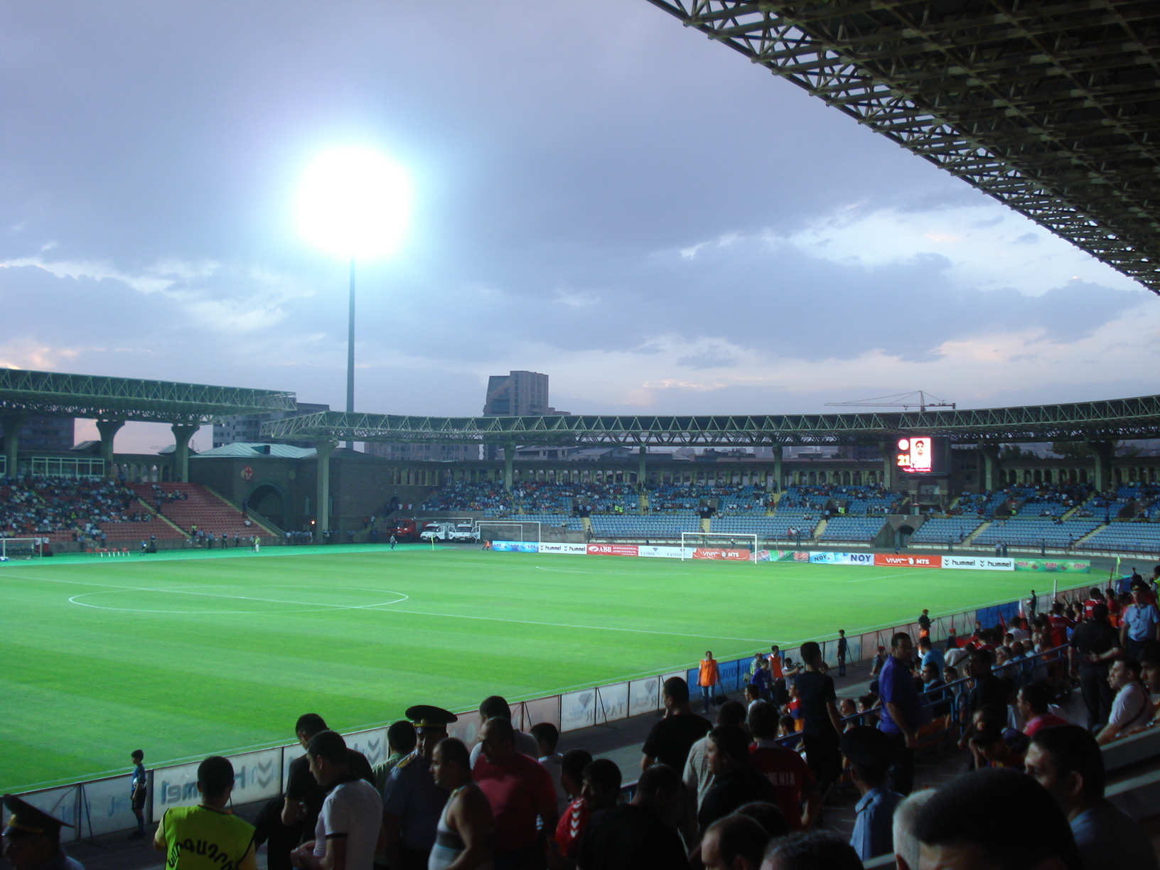 The Republican Stadium, Yerevan